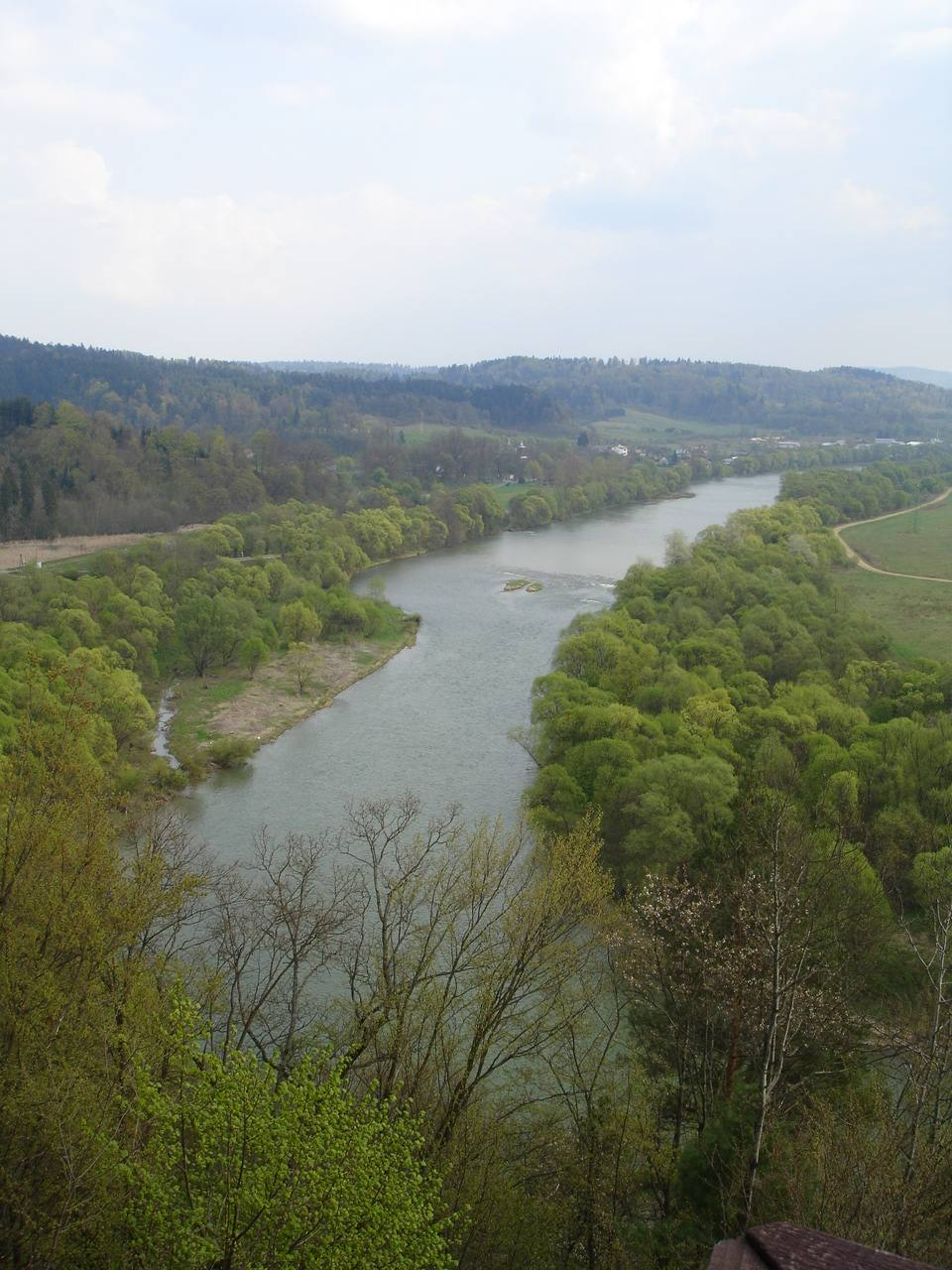 San river near Sobien castle, rural commune Zaluz, district Sanok